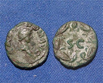 Quadrans of Domitian. ភាសាខ្មែរ: កូដ្រានរបស់អធិរាជរ៉ូម ដូមីនីធាន។.